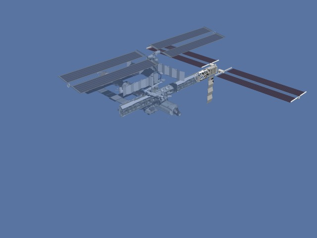 Space Shuttle Atlantis crew delivers and installs the second port truss segment P3/P4. The second set of solar arrays is deployed